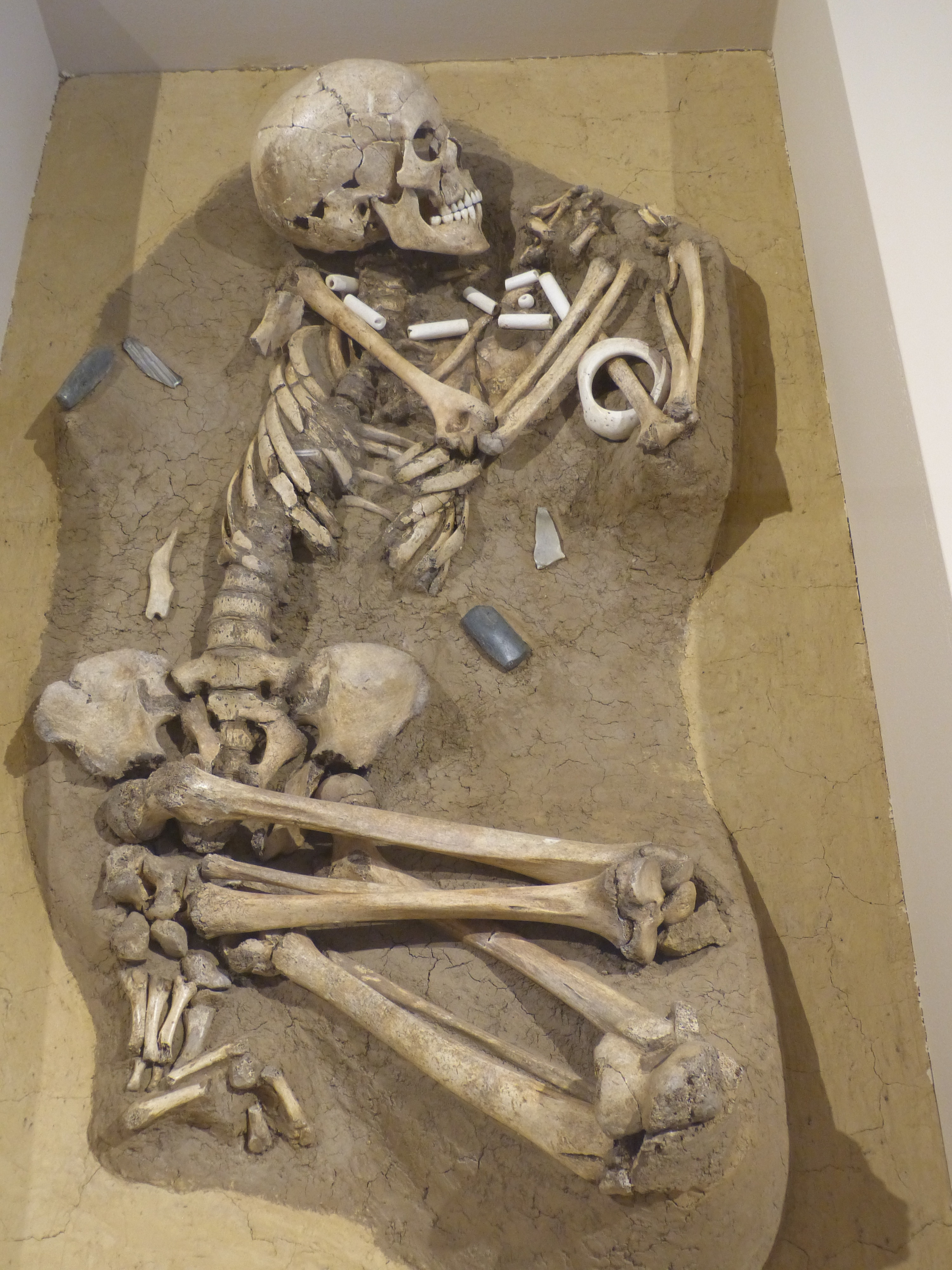 Straubing ( Lower Bavaria ). Gäubodenmuseum: Grave 41 in the Linear Pottery culture cemetery of Aiterhofen - Ödmühle.